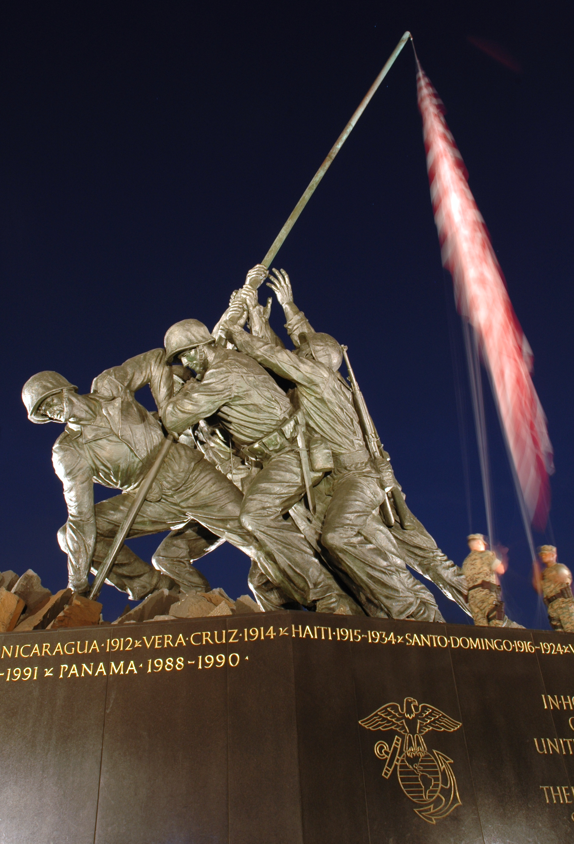 040709-N-0295M-003 Washington, D.C.,– Two U.S. Marines lower the American flag flown over the U.S. Marine Corps War Memorial, located in Washington, D.C. Flags flown over the memorial are made available to retiring military personal, and many military ceremonies and formal presentations. Felix DeWeldon sculpted the memorial after the famous flag-raising scene at the Battle of Iwo Jima during World War II. The memorial is dedicated to all Marines who have given their lives in the defense of the United States since 1775. For more information go to